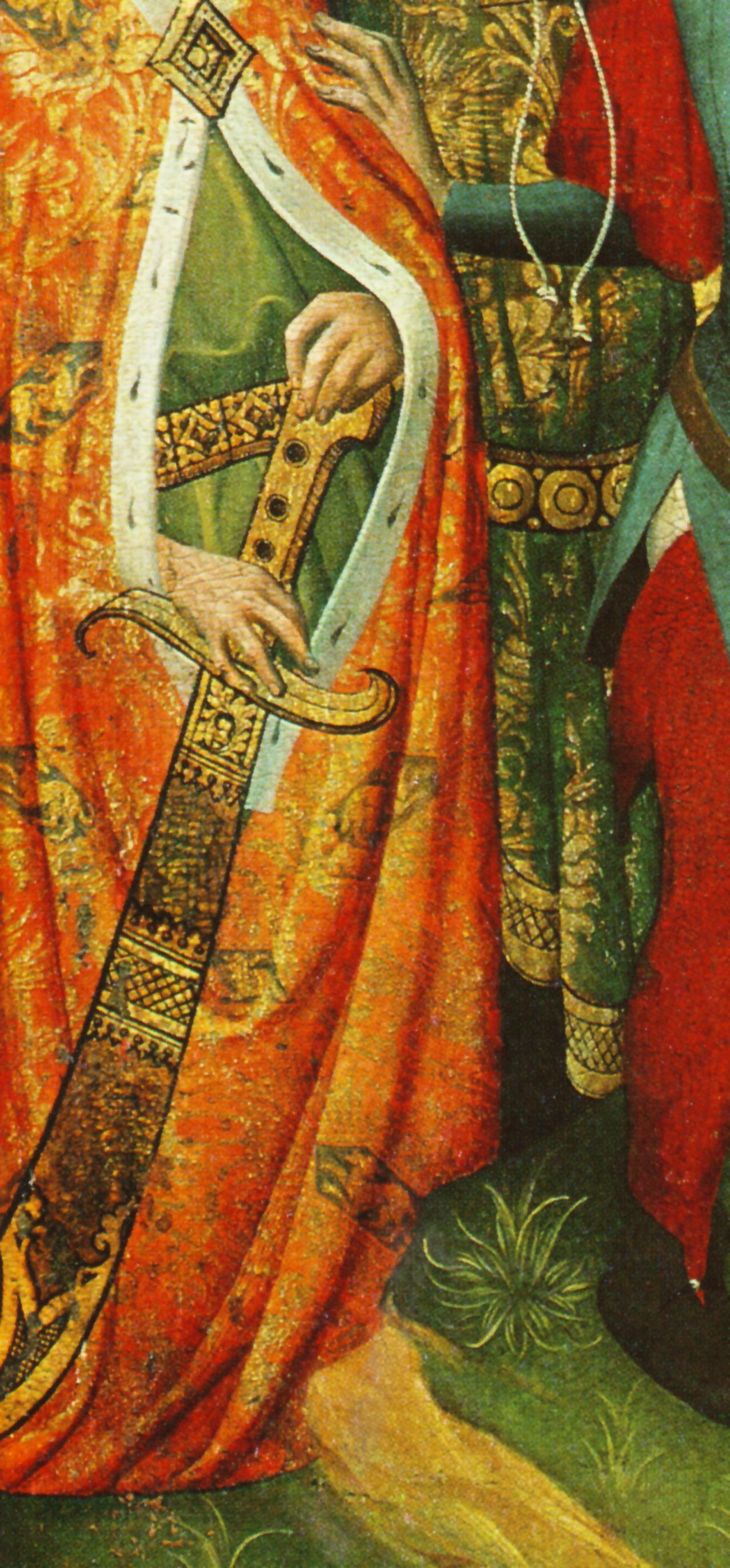 Master Francke: detail of the painting depicting St. Barbara's flagellation, costumes. From Barbara altar